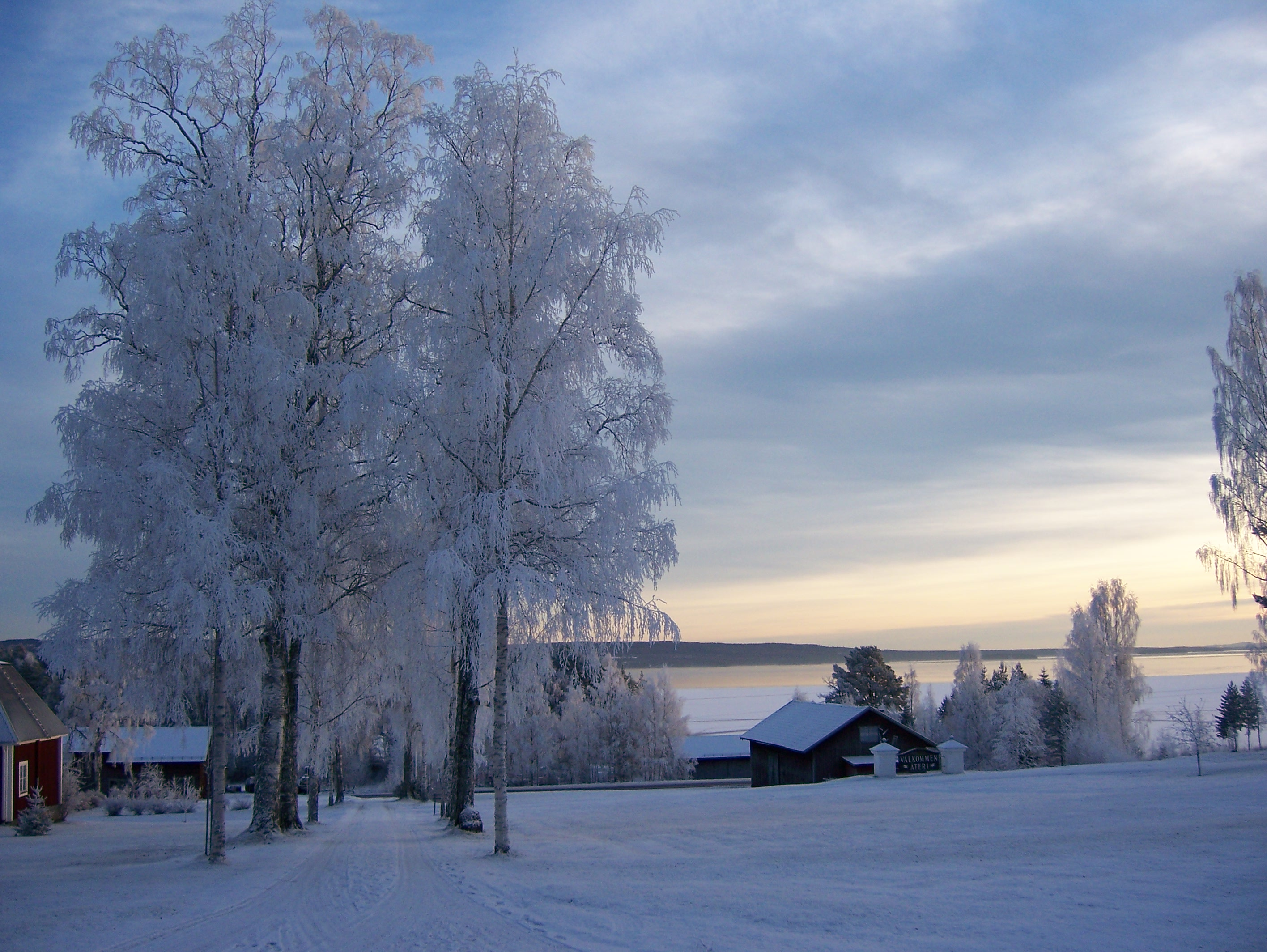 View of frozen Lake Siljan from Bäcka Herrgård.